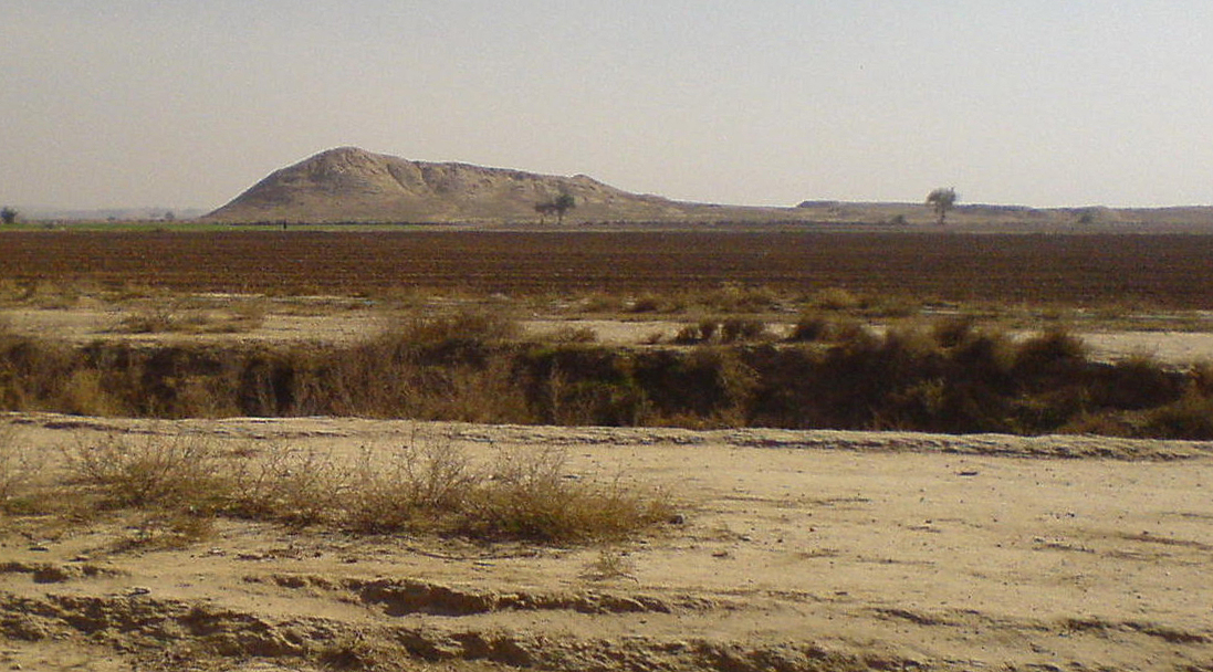 Site of Copper Age settlement Chogha Mish in western Iran